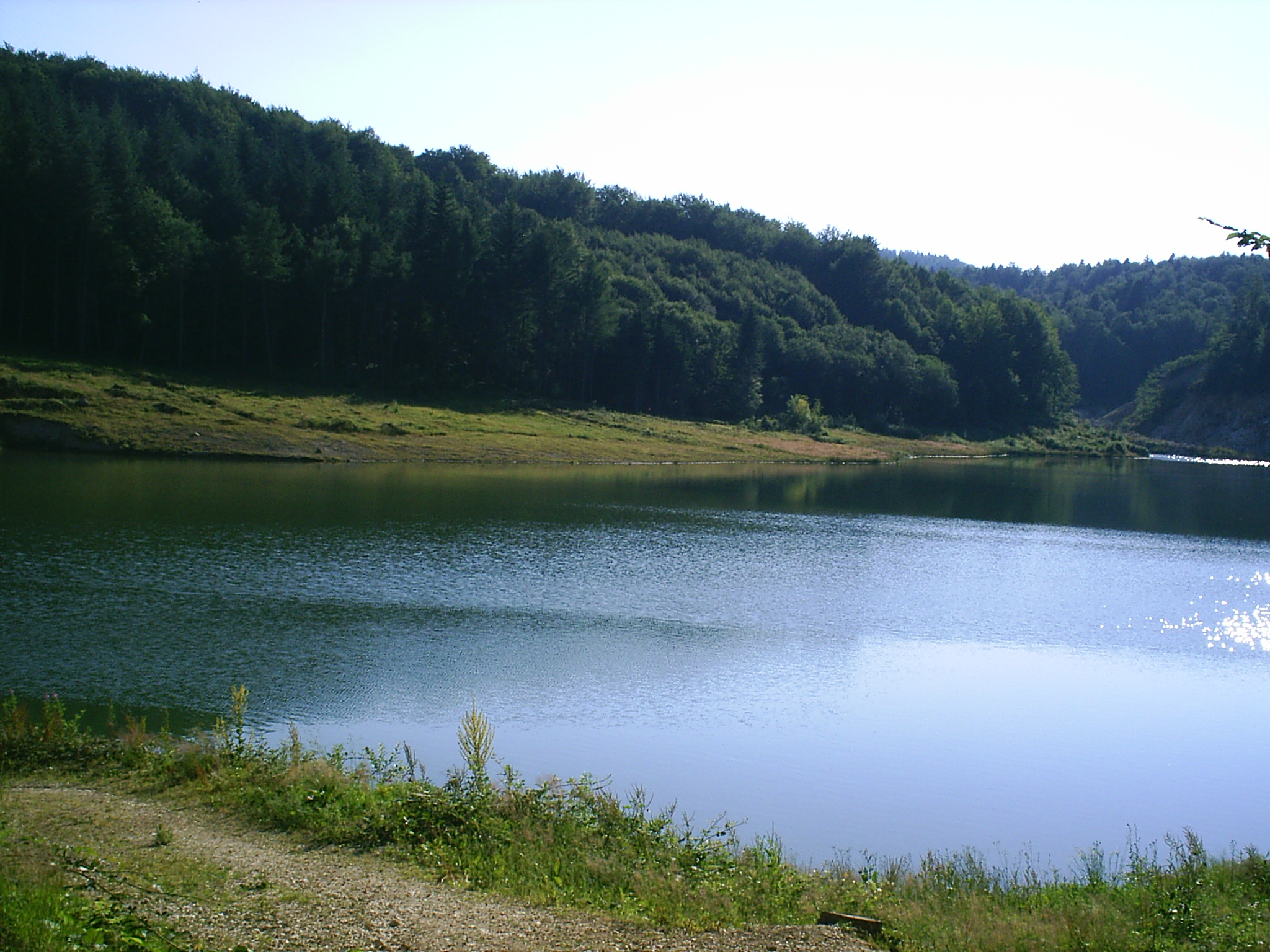 Goč mountain